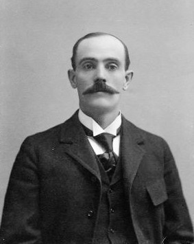 Photograph of John Alexander Chisholm